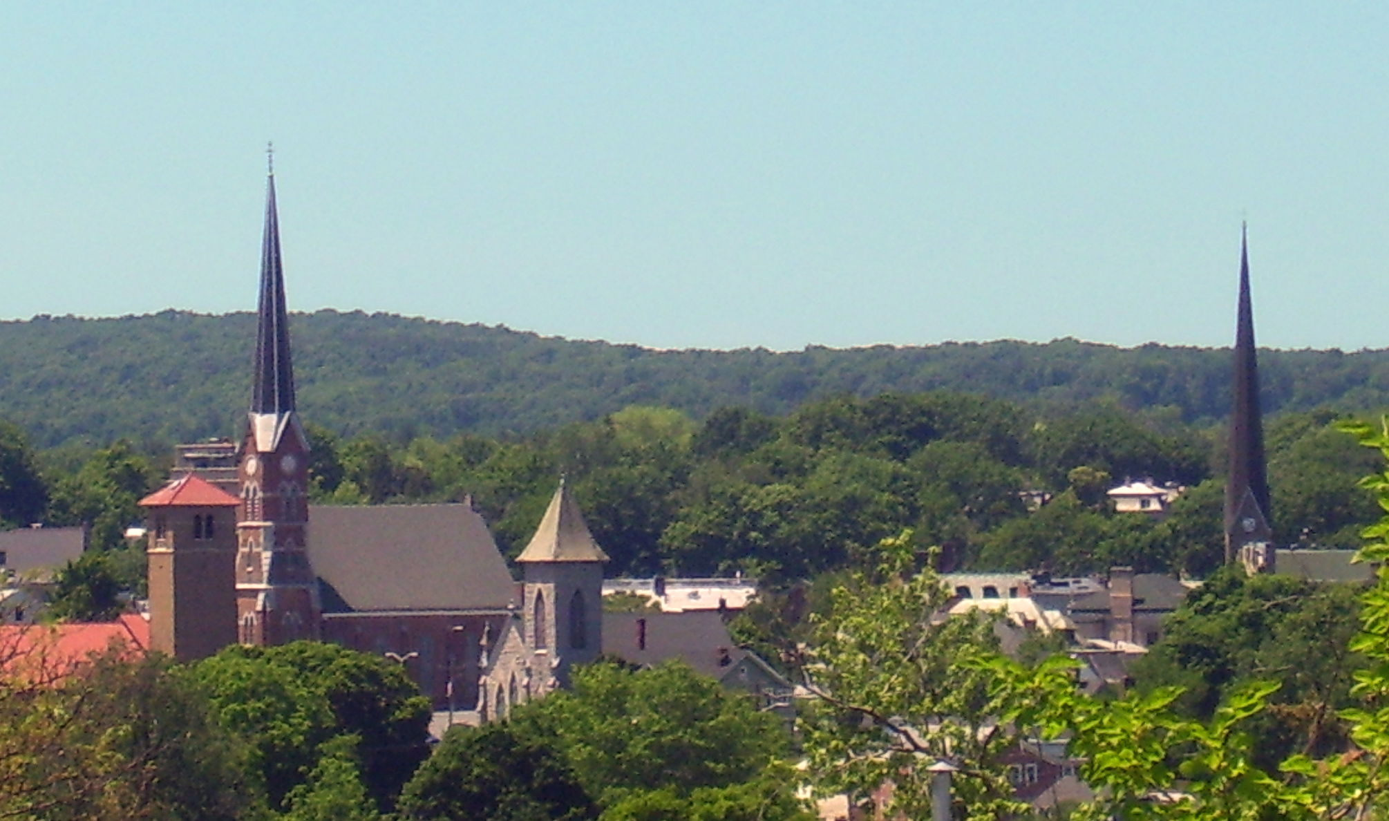 Skyline of downtown Middletown, NY, USA, seen from vicinity of Horton Memorial Hospital. First Congregational Church is tall spire at left